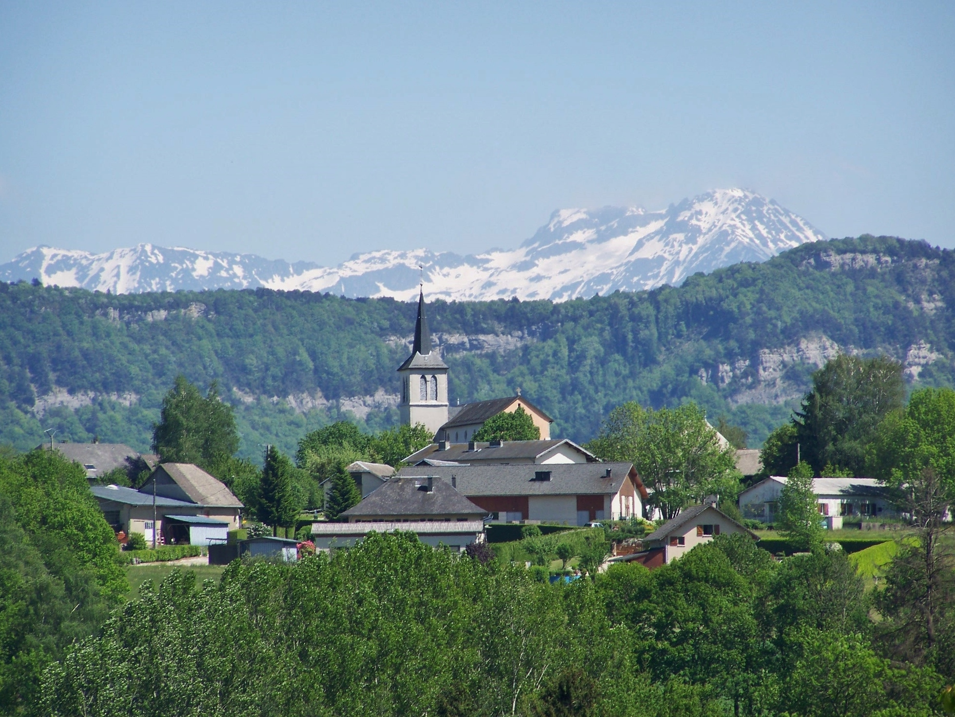 Panoramic sight of the French village of Vimines near Chambéry, with at the background the snow-covered Belledonne mountains, in Savoie.